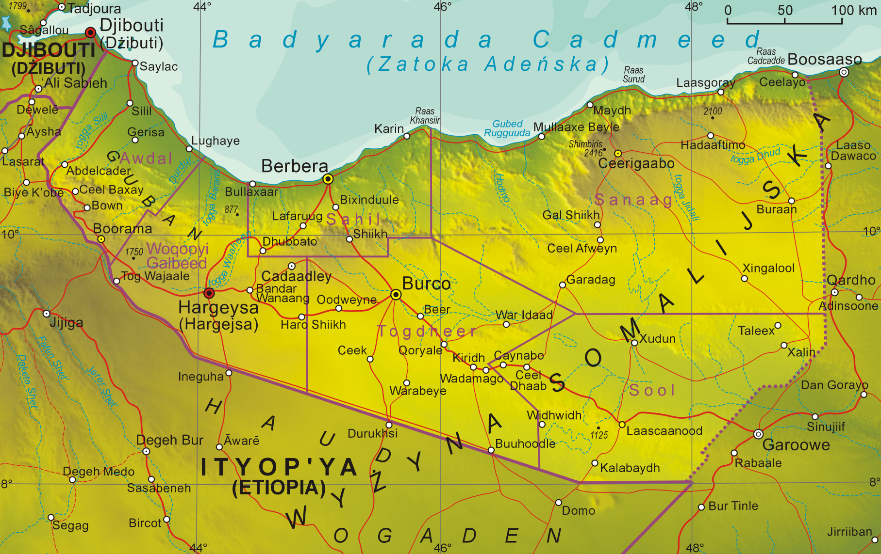 Map of Somaliland